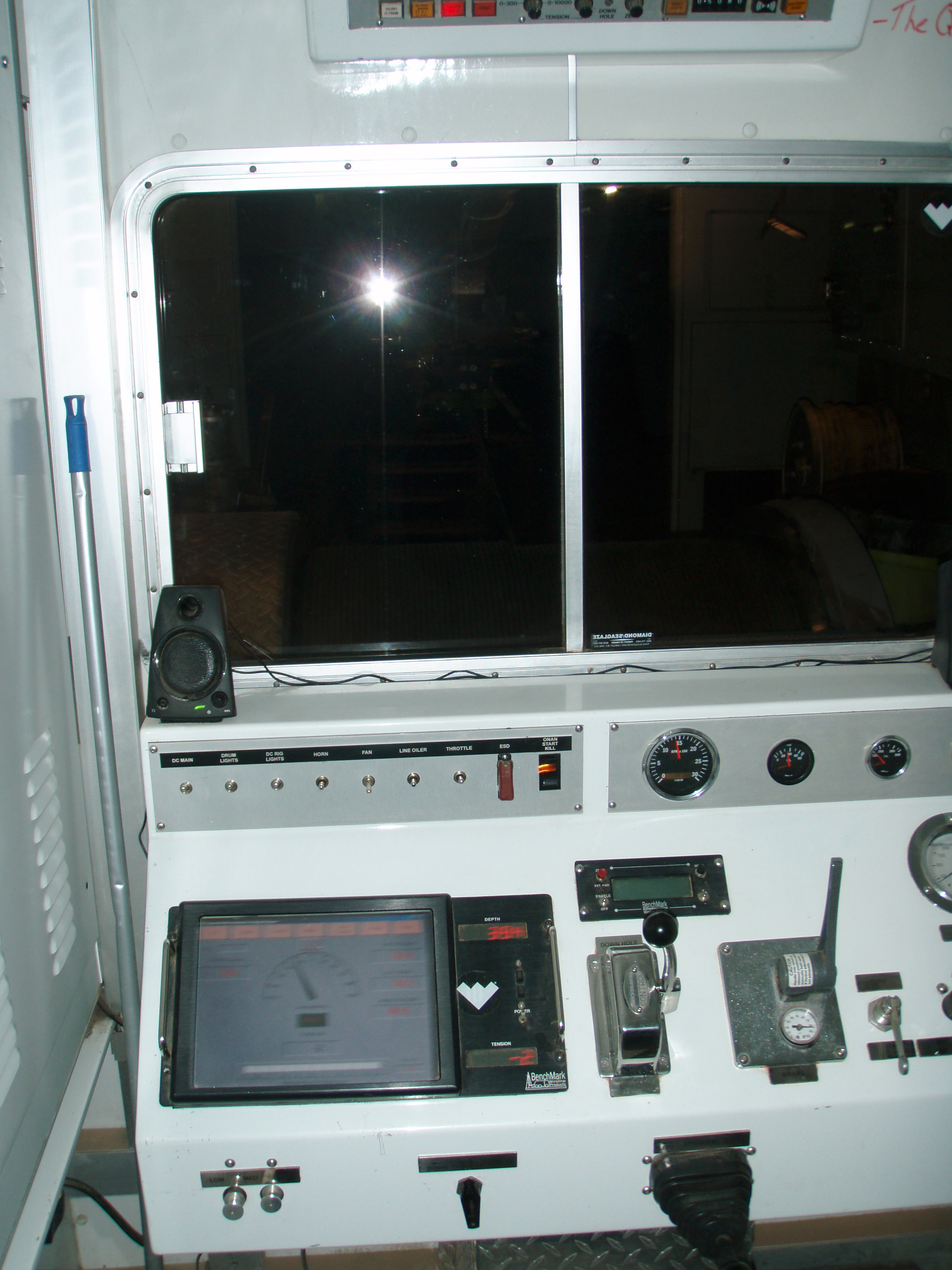 Control panel inside a wireline truck doing logging operations